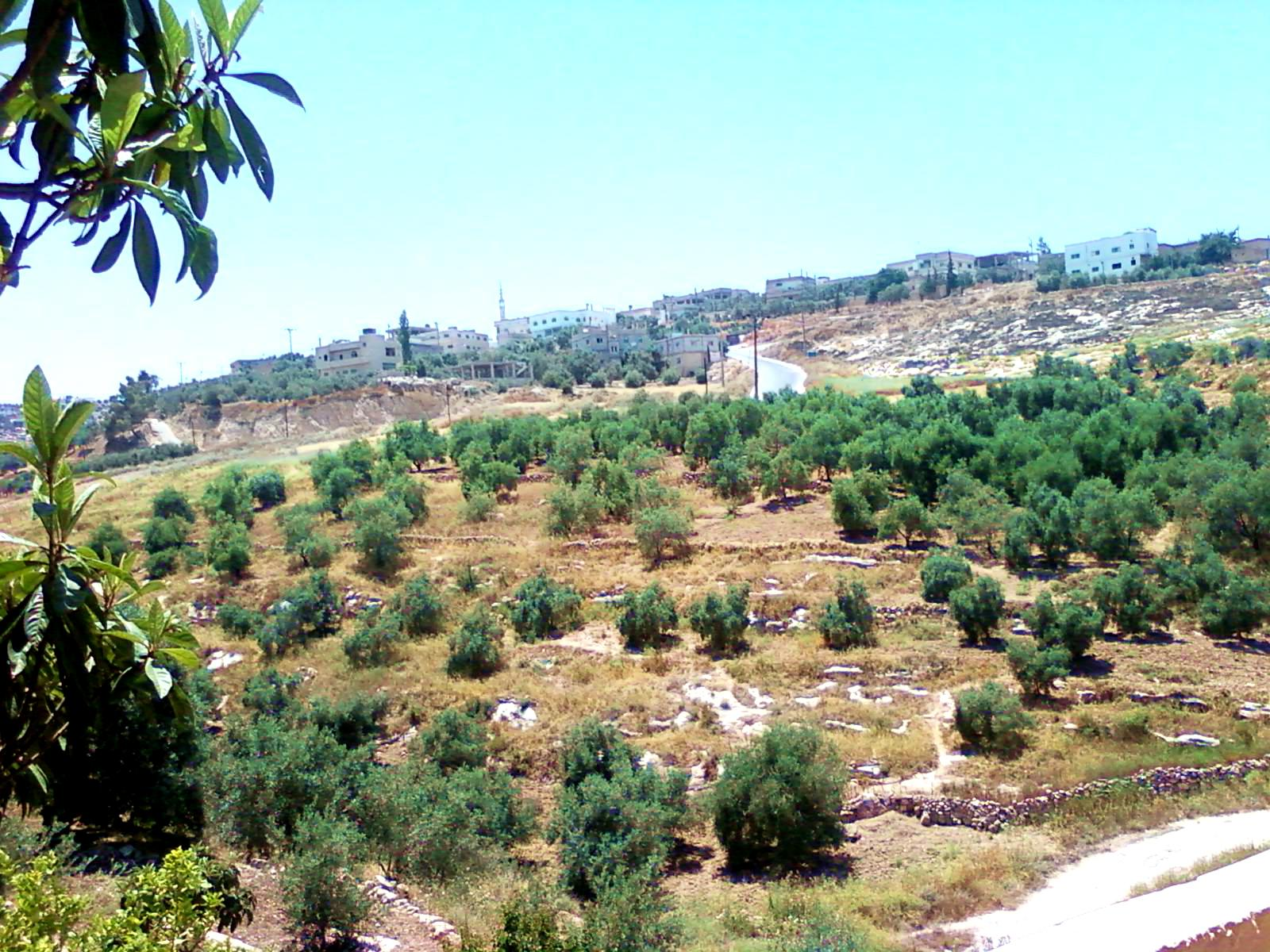 Pic From Juffain-Jordan